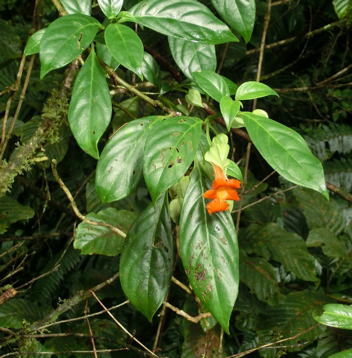 Drymonia rubra. Costa Rica, Monteverde Cloud Forest Reserve, Selvatura (hanging bridges and) walkway, ca 1500 m.